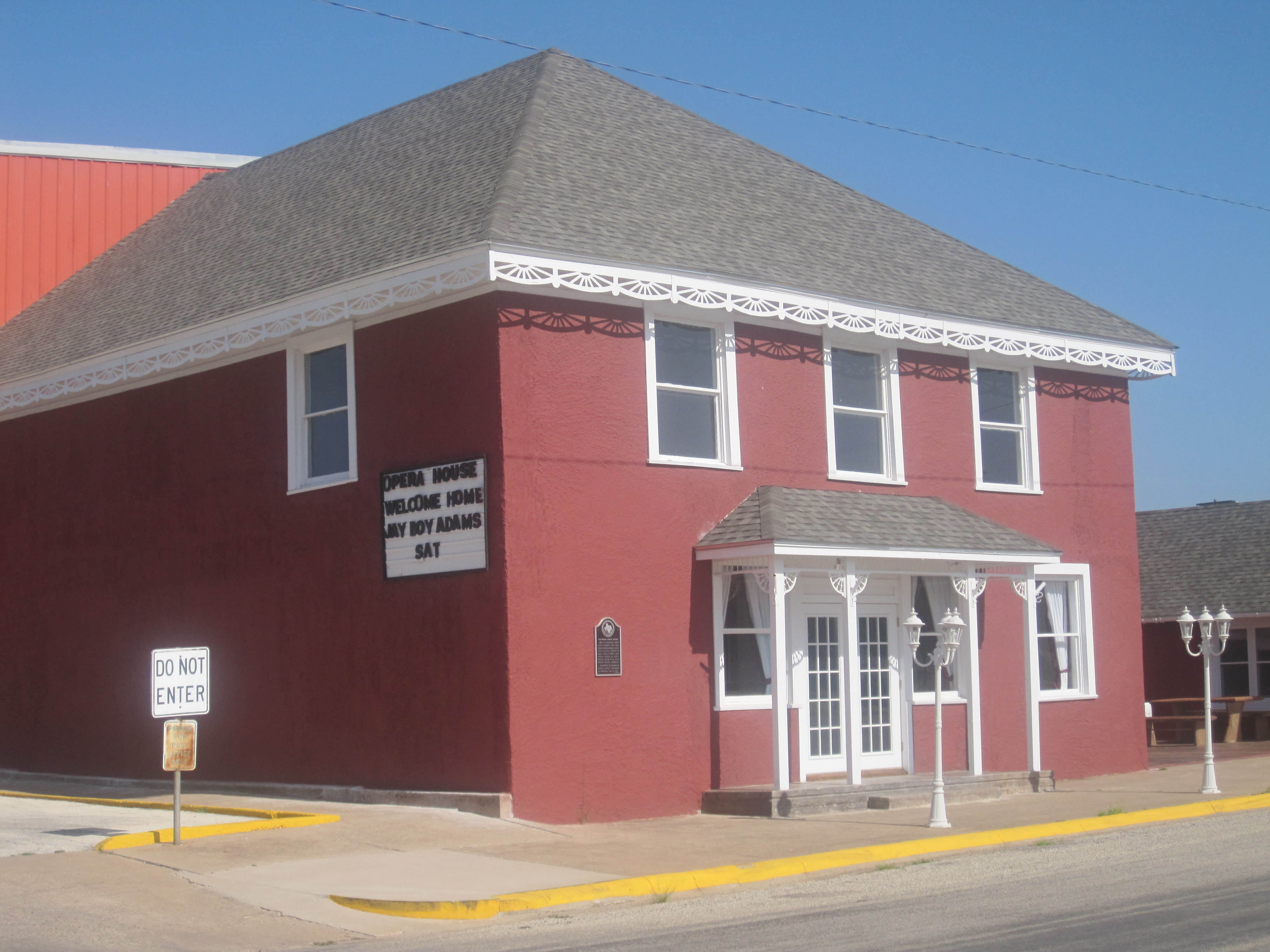 I took photo with Canon camera in CO City, TX